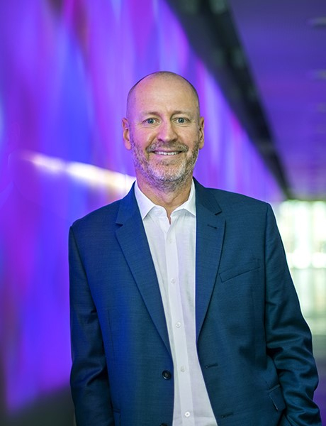 Professor Doug Hilton AO, director of the Walter and Eliza Hall Institute of Medical Research in 2019